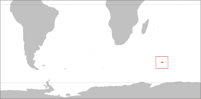 Position of Kerguelen Islands, French Southern and Antarctic Territories drawn by varp